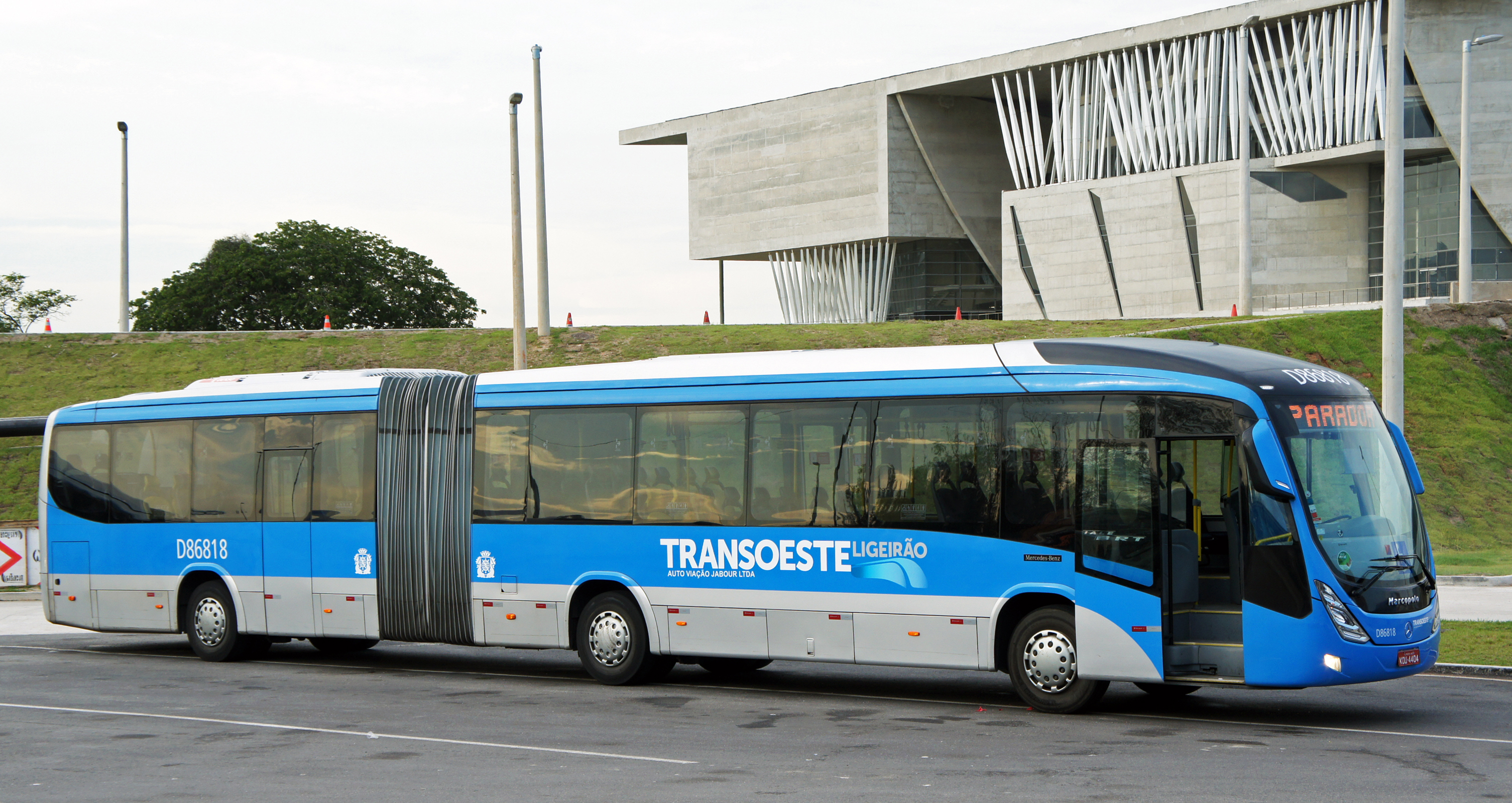 BRT TransOeste articulated bus at Terminal Alvorada, Barra de Tijuca, Rio de Janeiro